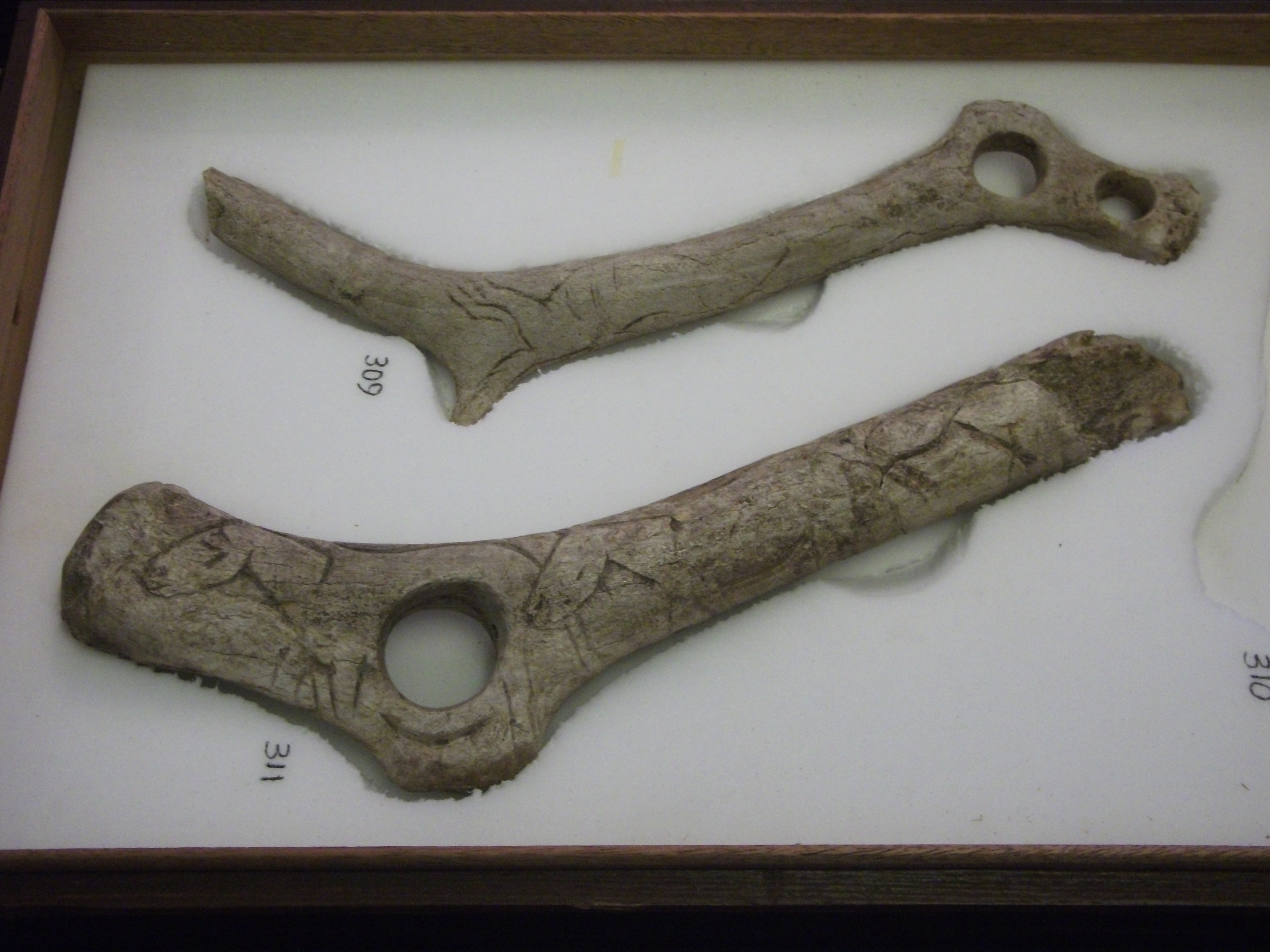 BM Ice Age Art event, October 2011. Perforated batons of antler, Sieveking 309 and Sieveking 311